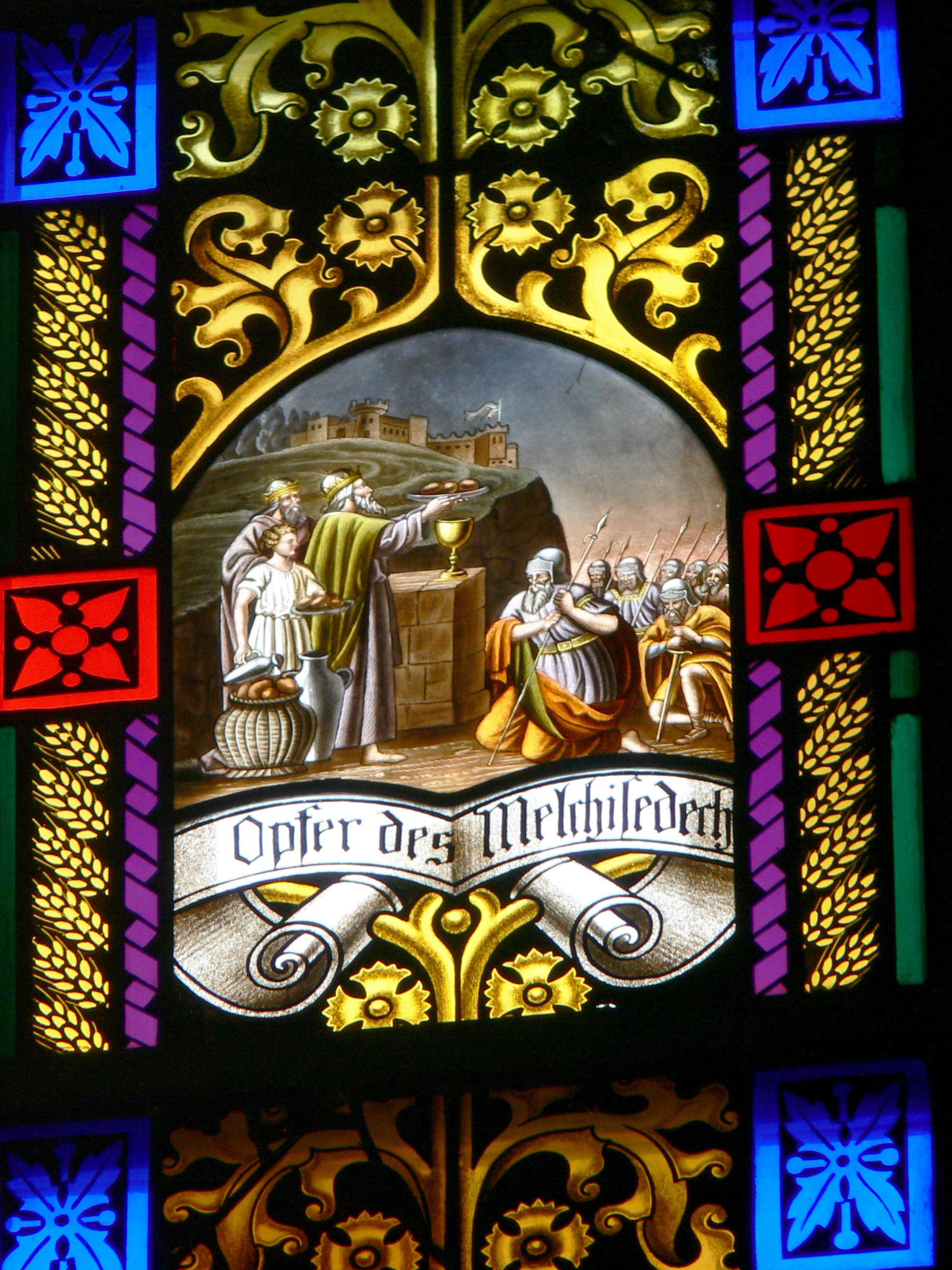 Pötting - parish church of the Holy Cross: Stained glass window showing the sacrifice of Melchizedek.